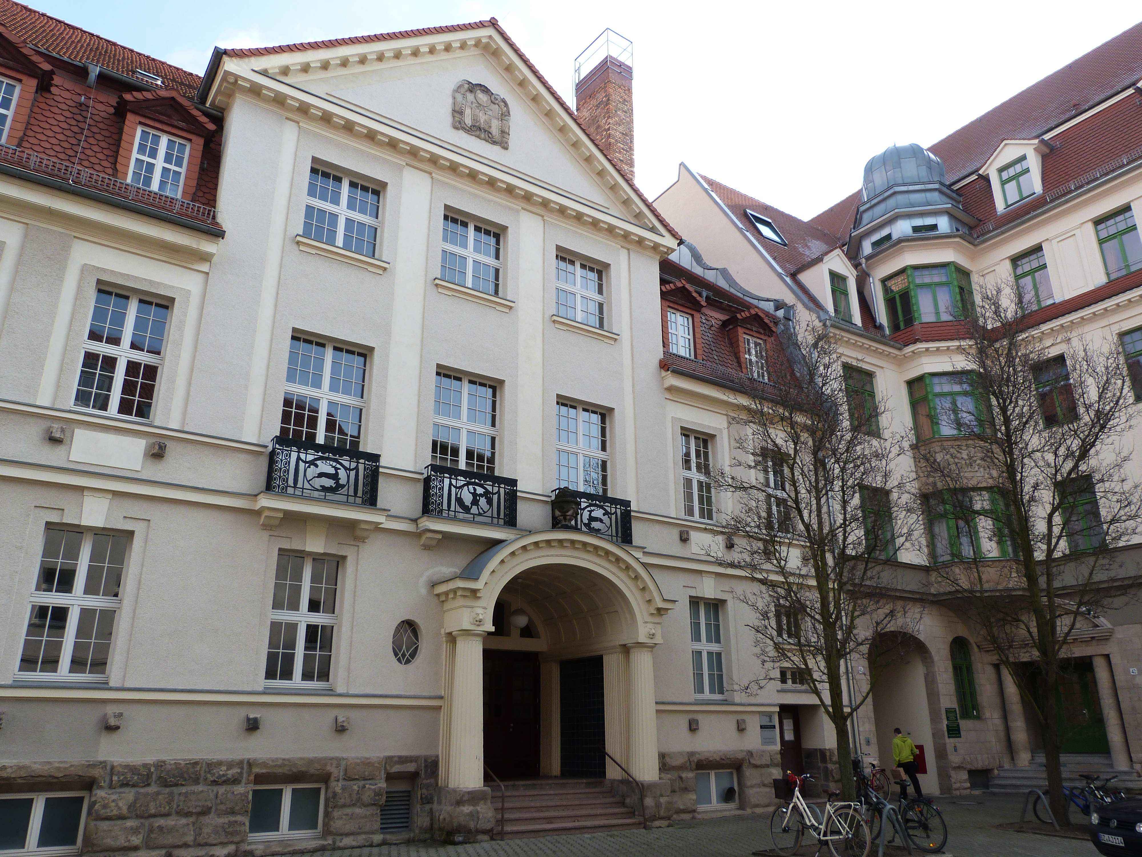 Street Harz No. 42, student hostel, Halle (Saale)